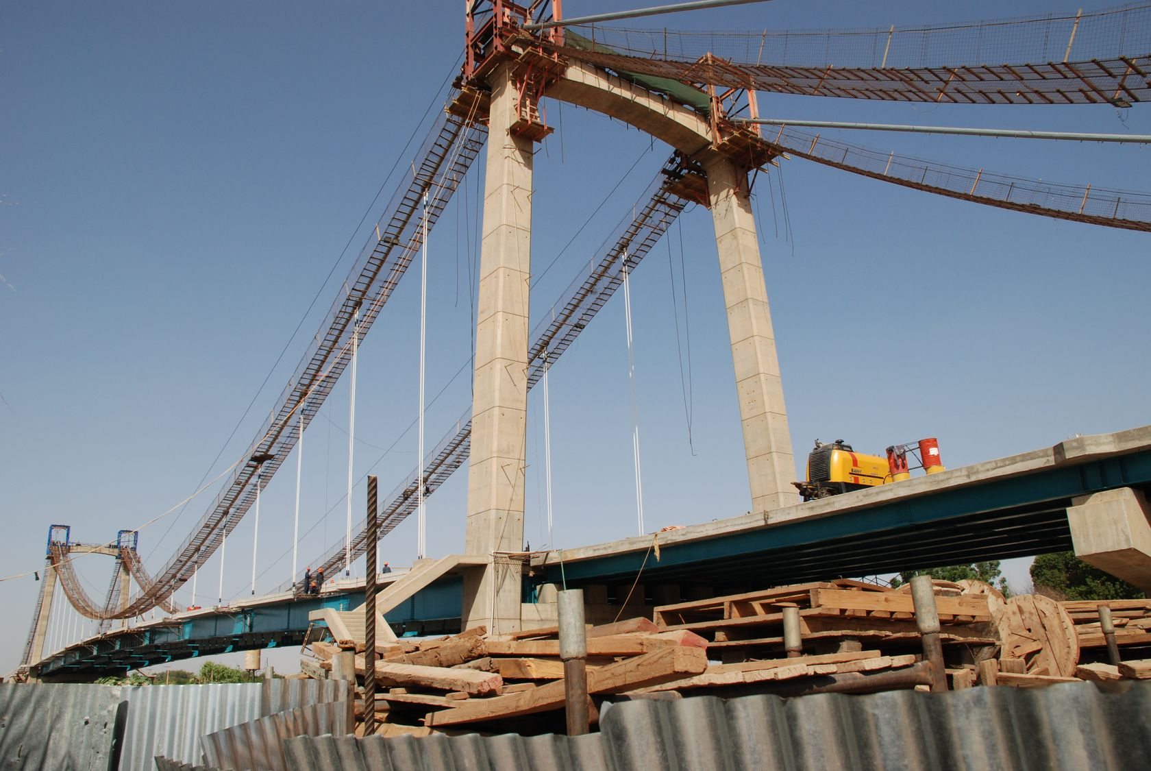 Tuti Bridge across Nile between Khartum and Tuti Island - Sudan.